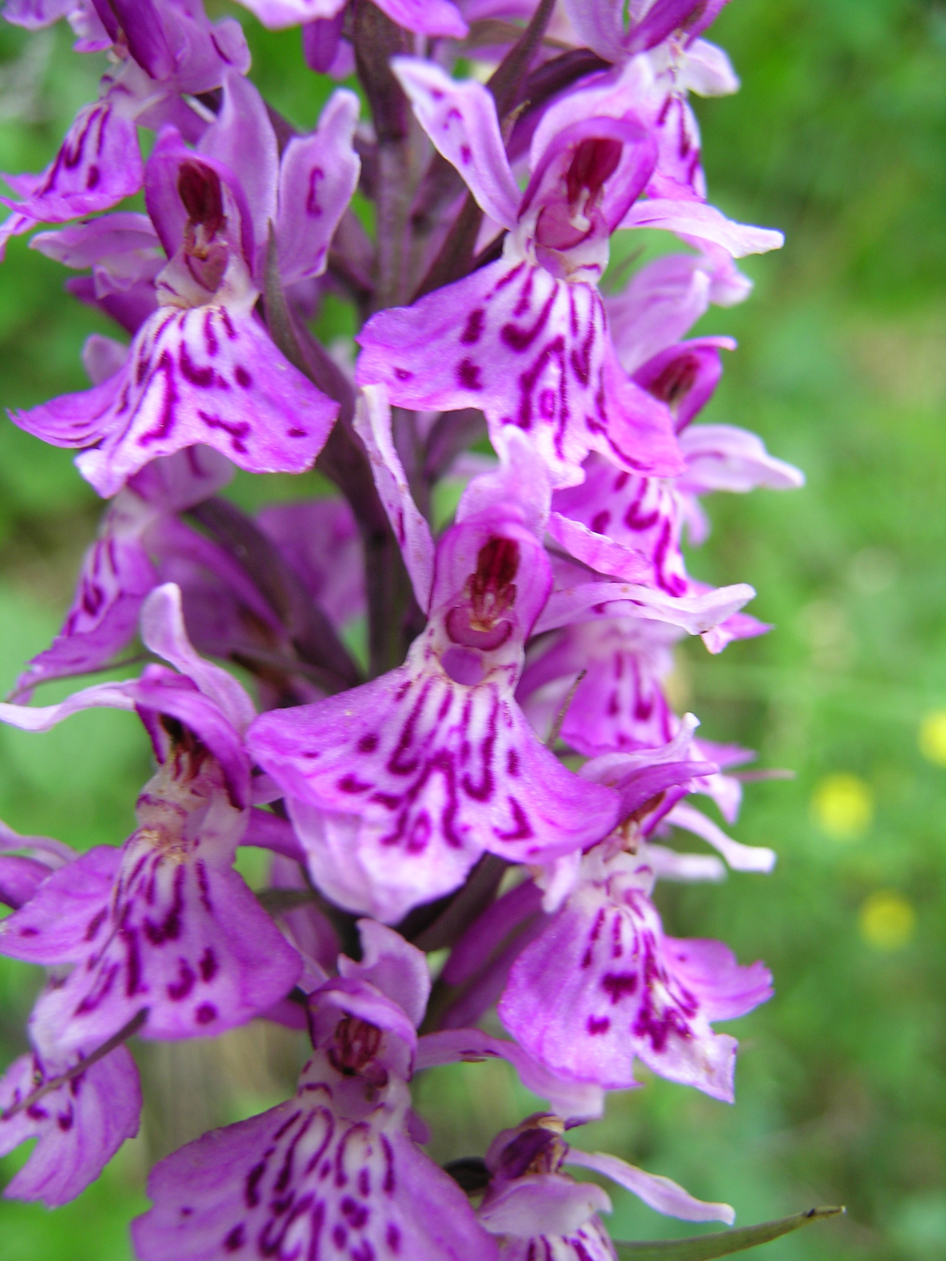 Dactylorhiza maculata. Kongsberg, Norway.